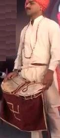 Playing sambal